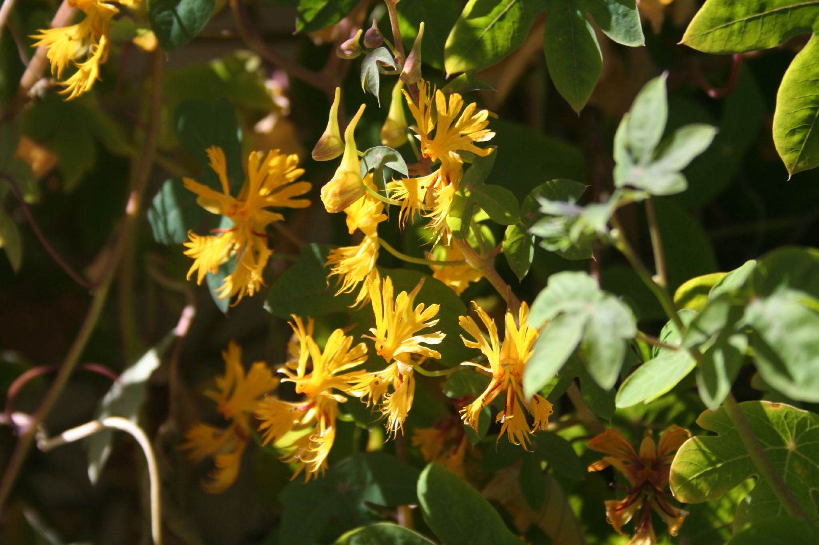 Cultivated in downtown Oruro. Love those fringes on the flowers.